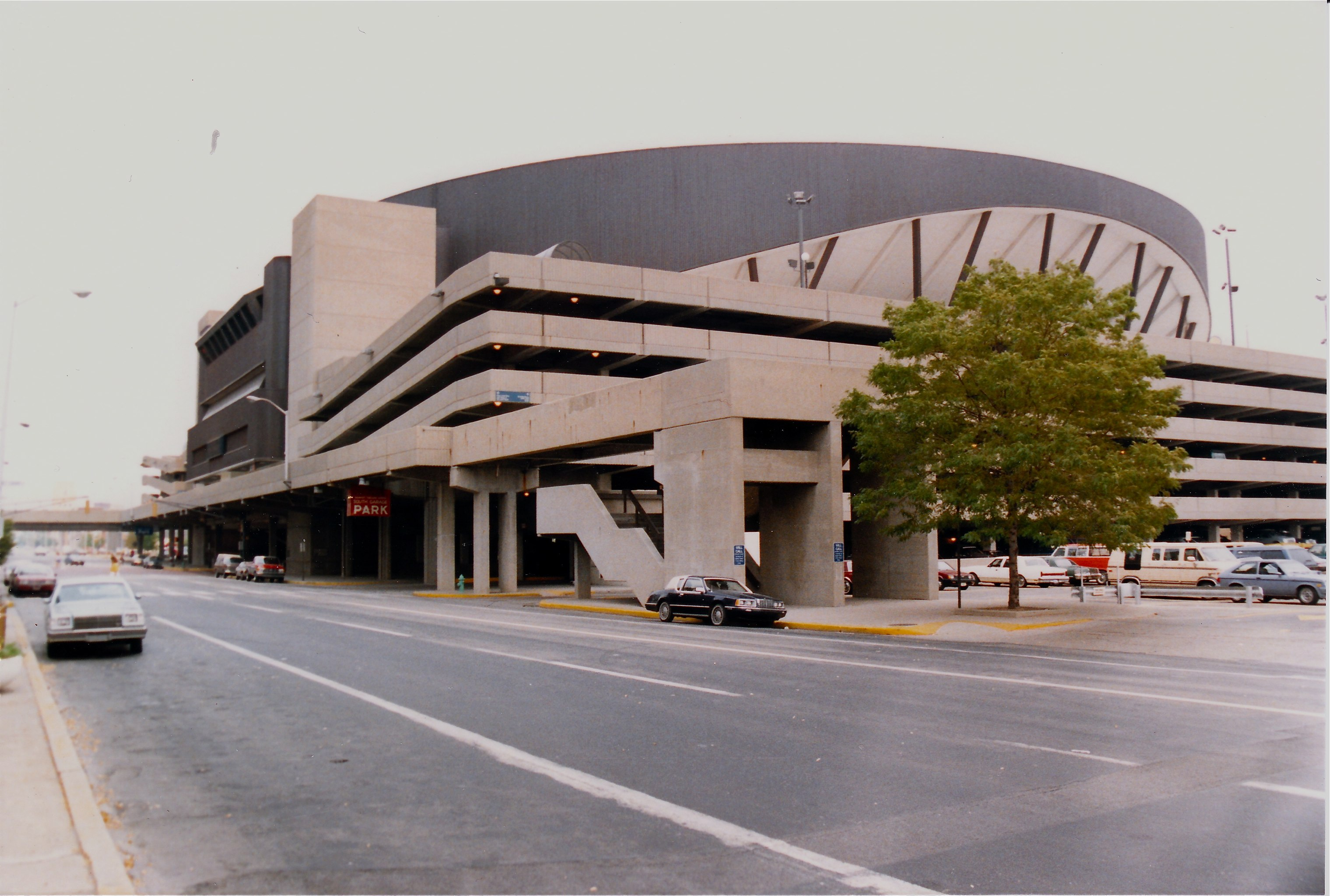 Market Square Arena, Indianapolis, June 1988.